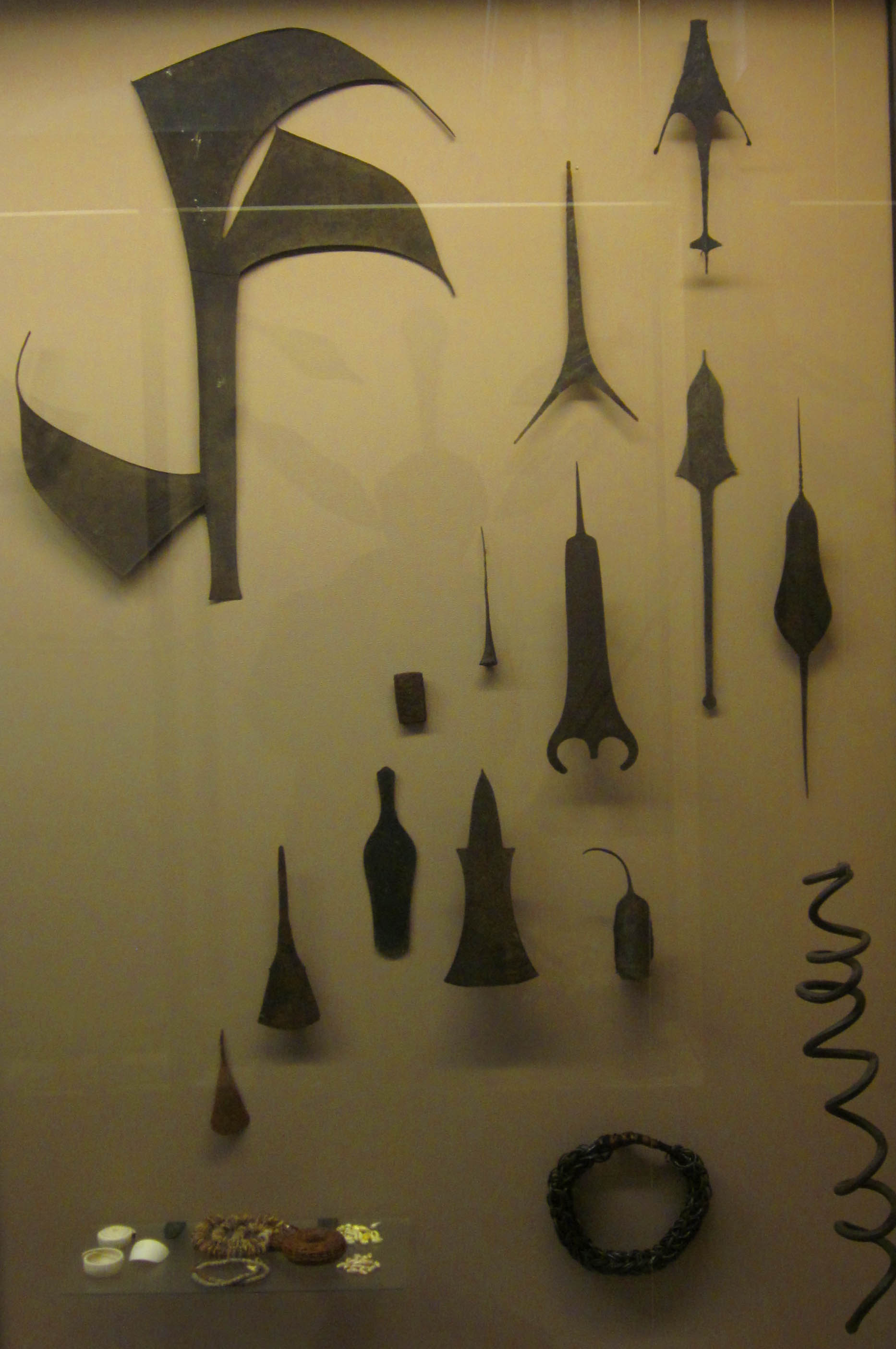 Display of forms of African cast currency, c. 19th century. In Royal Museum for Central Africa, Terveuren.